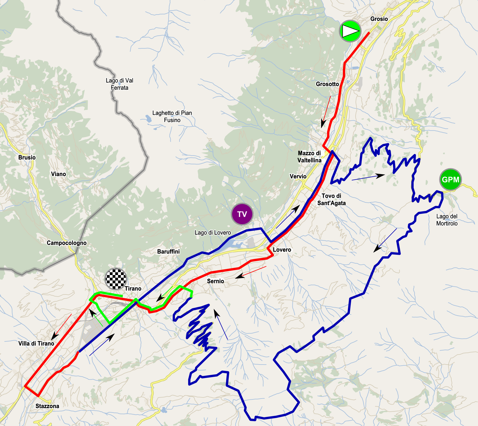 Map of the stage 5 of the Giro rosa 2016.